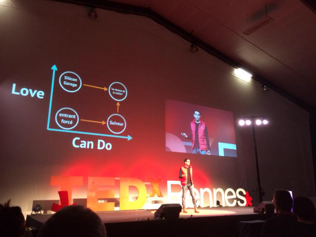 Aberkane describing his "Love Can Do" diagram at TEDx Rennes 2015